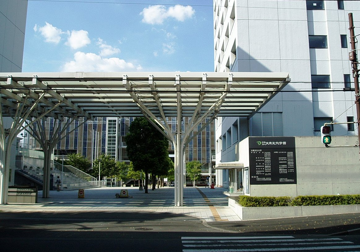 The main entrance to Itabashi Campus, Daito Bunka University located in Itabashi, Tokyo, Japan.